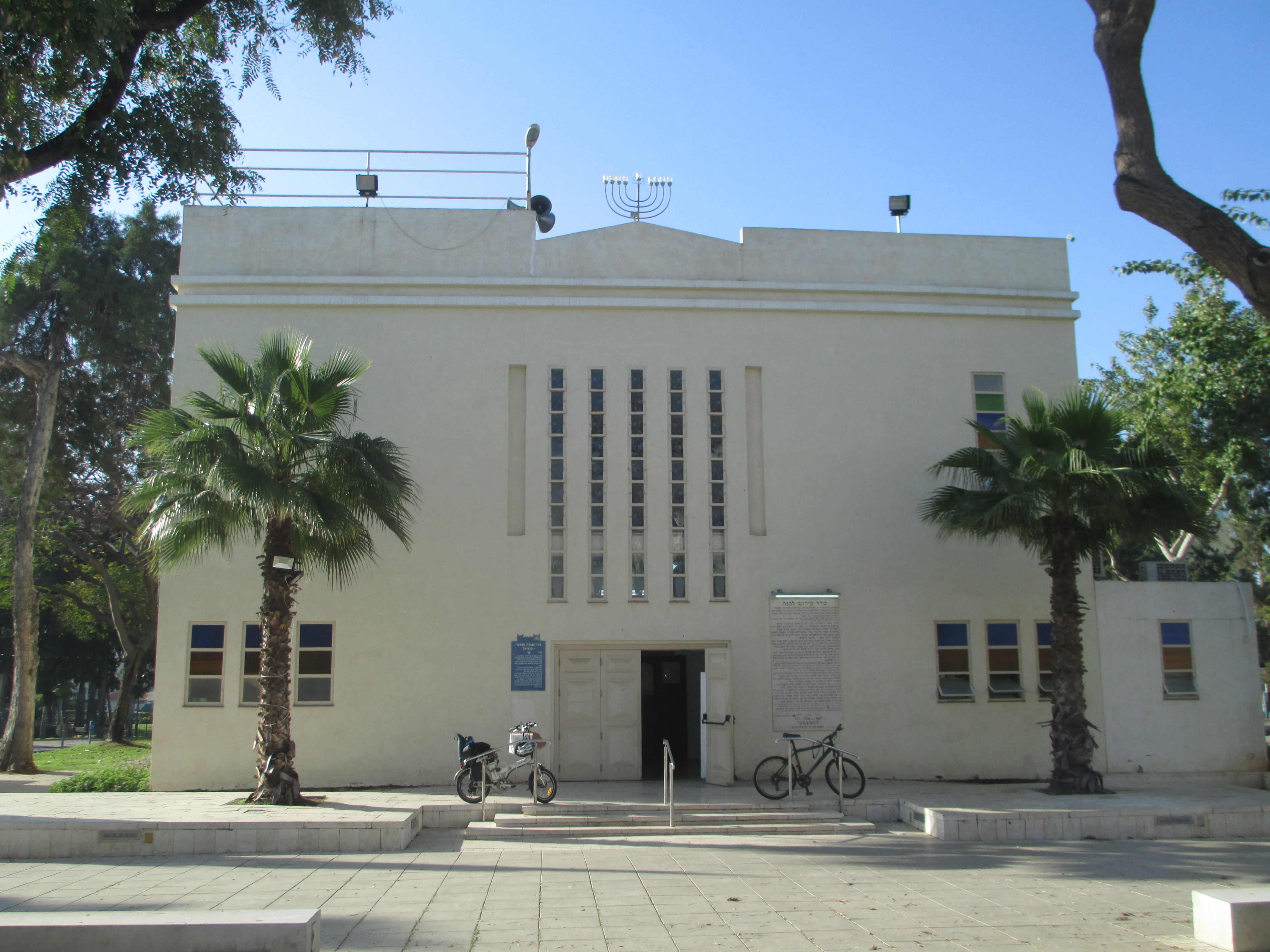 The Great Synagogue in Magdiel